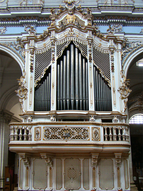 Cathedral of San Giorgio, Modica, Sicily, Italy.